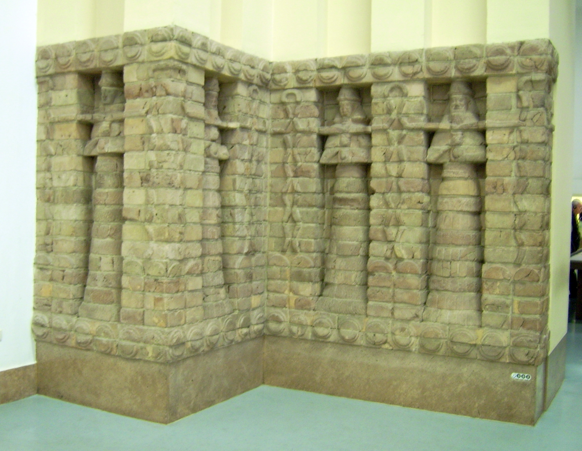 Part the front of the Inanna temple of the Kara Indasch from Uruk.